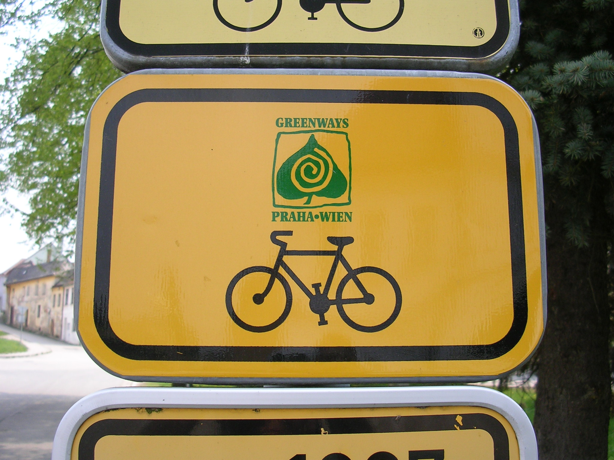 Nová Bystřice, South Bohemian Region, the Czech Republic. Cycling route sign.